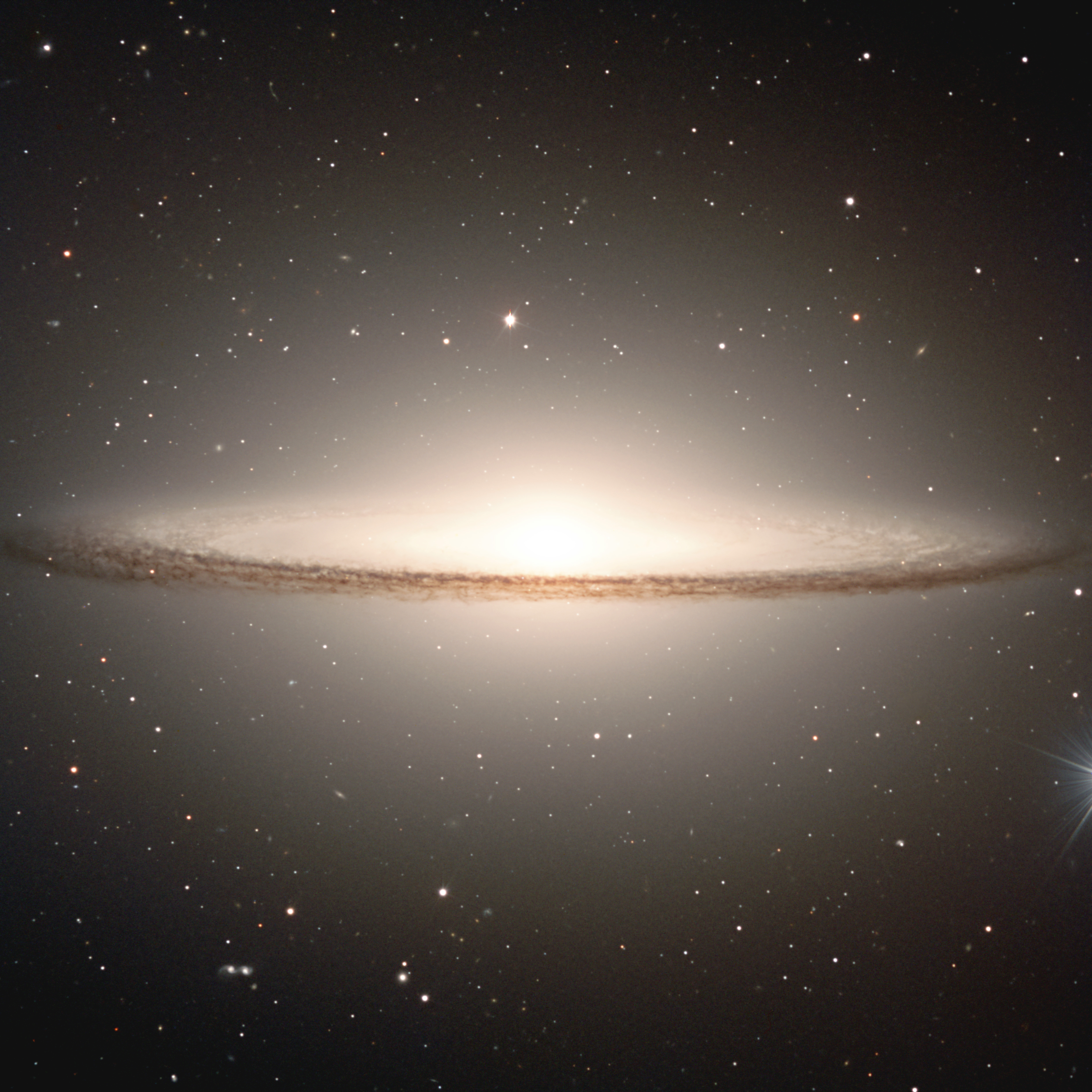 Image of the famous early-type spiral galaxy Messier 104, widely known as the "Sombrero" (the Mexican hat) because of its particular shape. The "Sombrero" is located in the constellation Virgo (The Virgin), at a distance of about 50 million light-years.